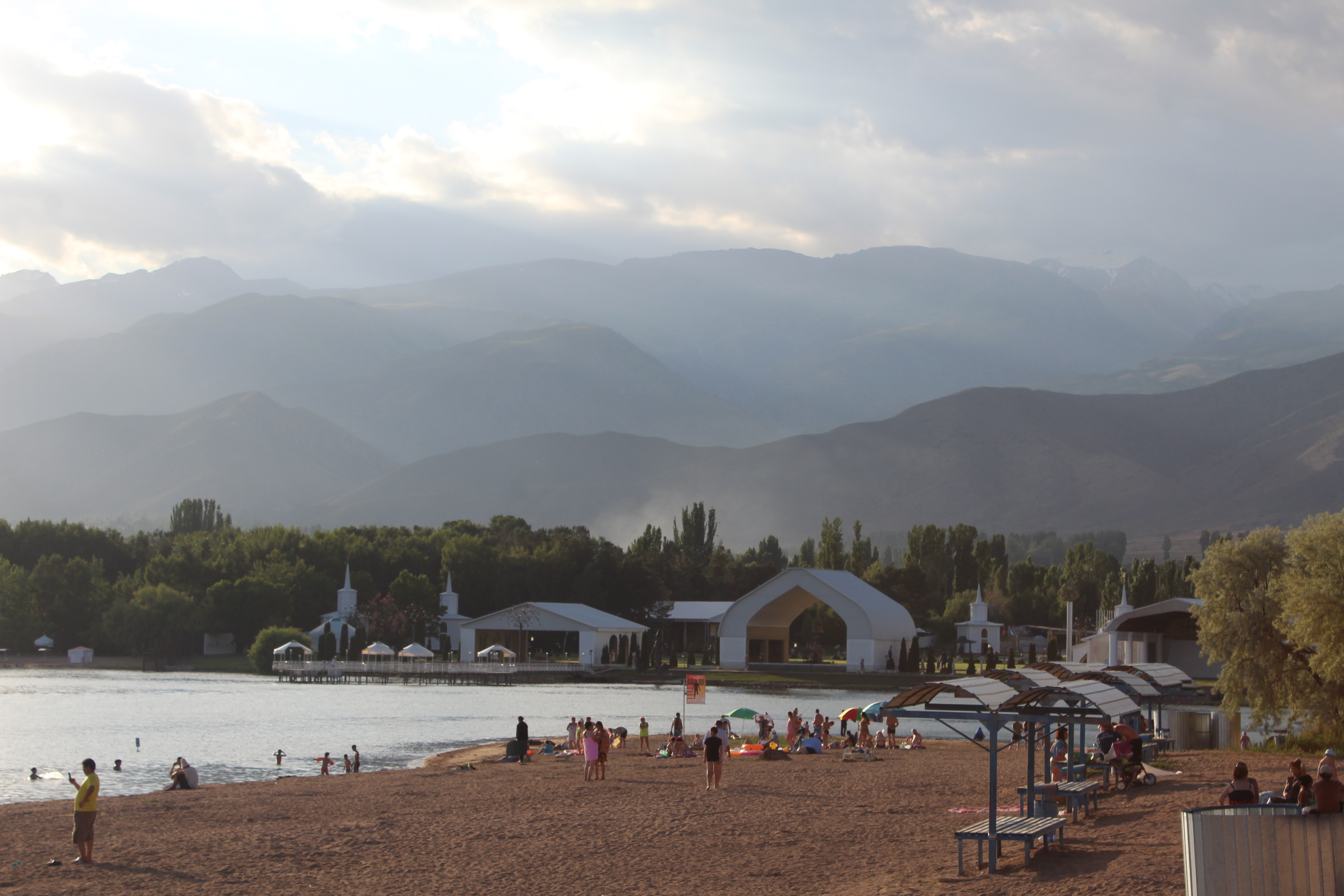 A view of Rukh Ordo in Cholpon-Ata, Kyrgyzstan, from the southeast. Кыргызча: Чолпон-Атадагы Рух Ордонун түштүк-чыгыштан көрүнүшү.